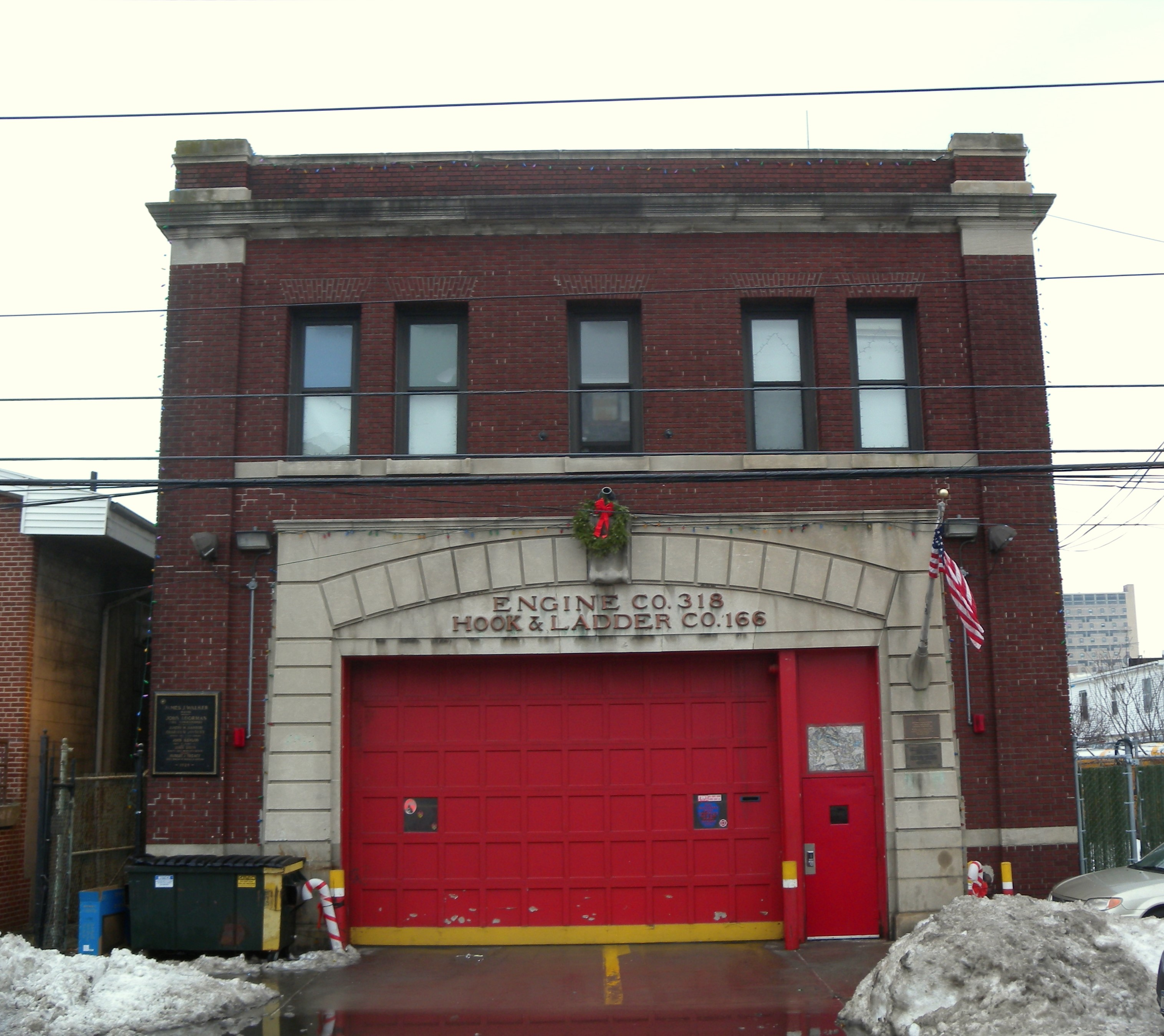 Looking south from Neptune Avenue at Engine 318 on a cloudy New Years Day.